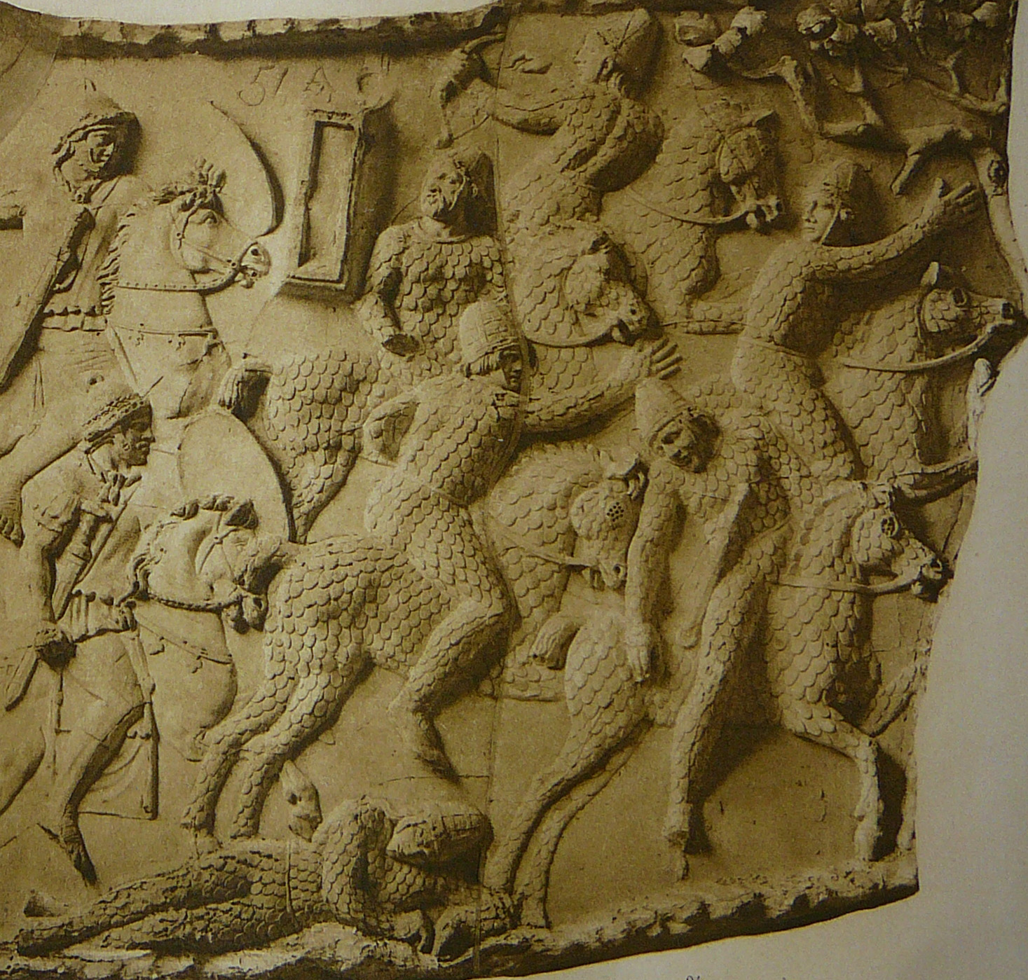 Sarmatian heavy cavalry fleeing from Roman riders